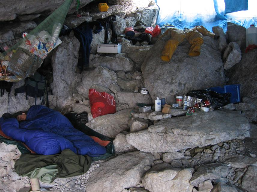 View of the bivi under the stone bridge beside Steinbrückenhöhle cave